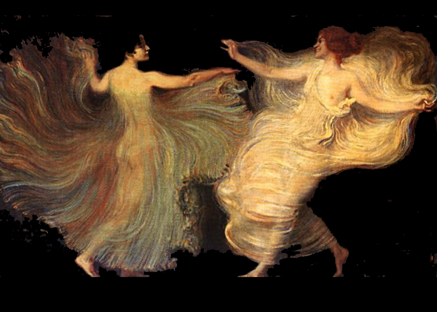 Franz Von Stuck's symbolist painting "Dancers".